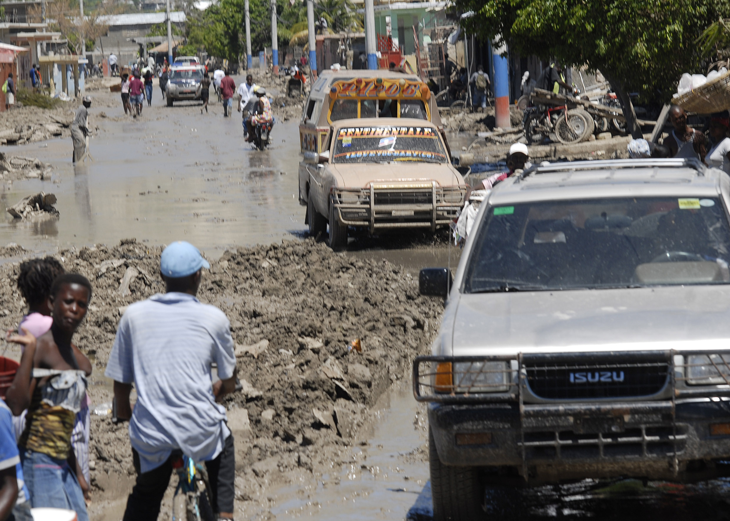 Gonaïves, Haiti: the flood after the hurricanes Hannah and Ike.